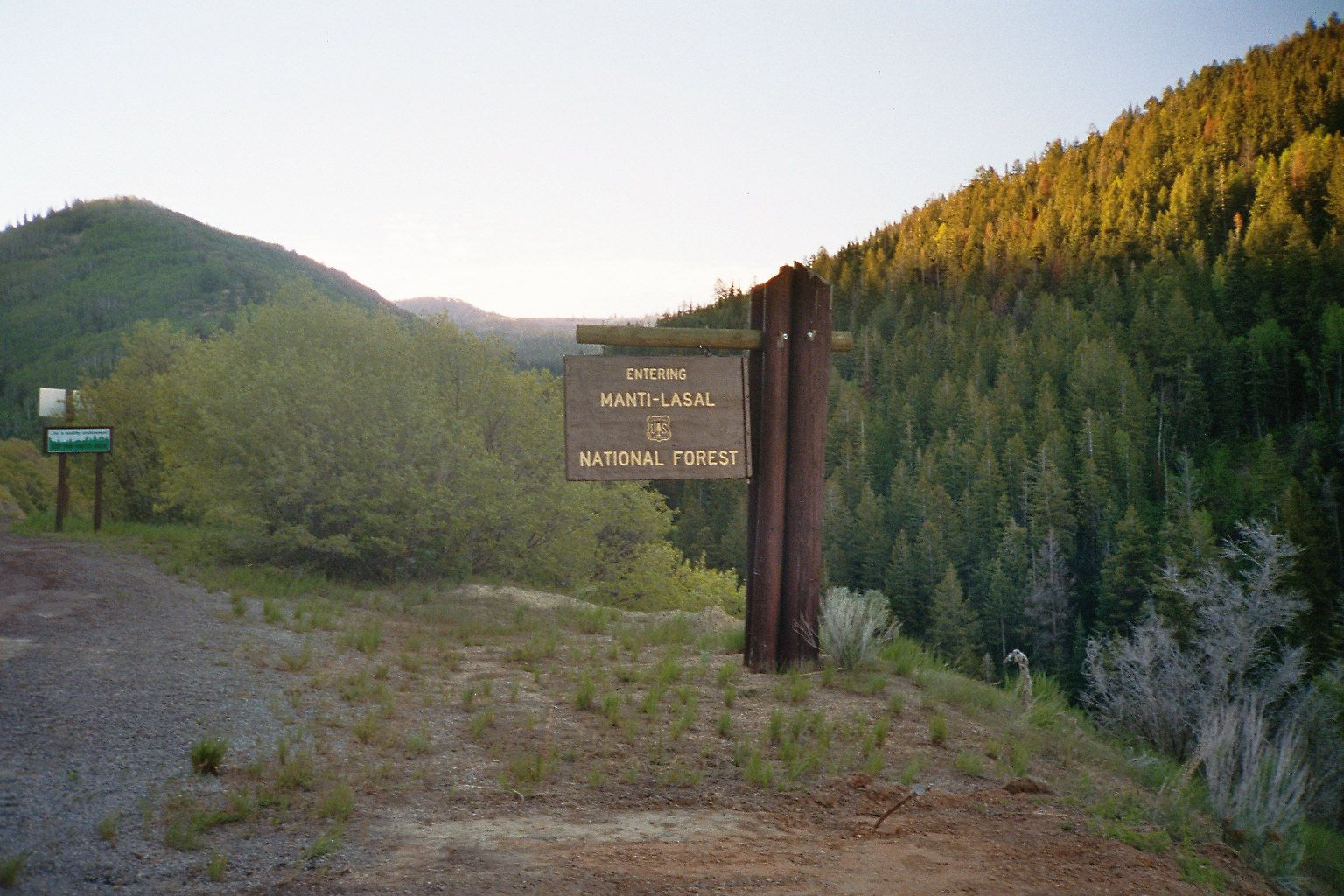 Sign that reads "Entering Manti-Lasal National Forest". Huntington National Scenic Byway State Route 31 from Fairview to Huntington.